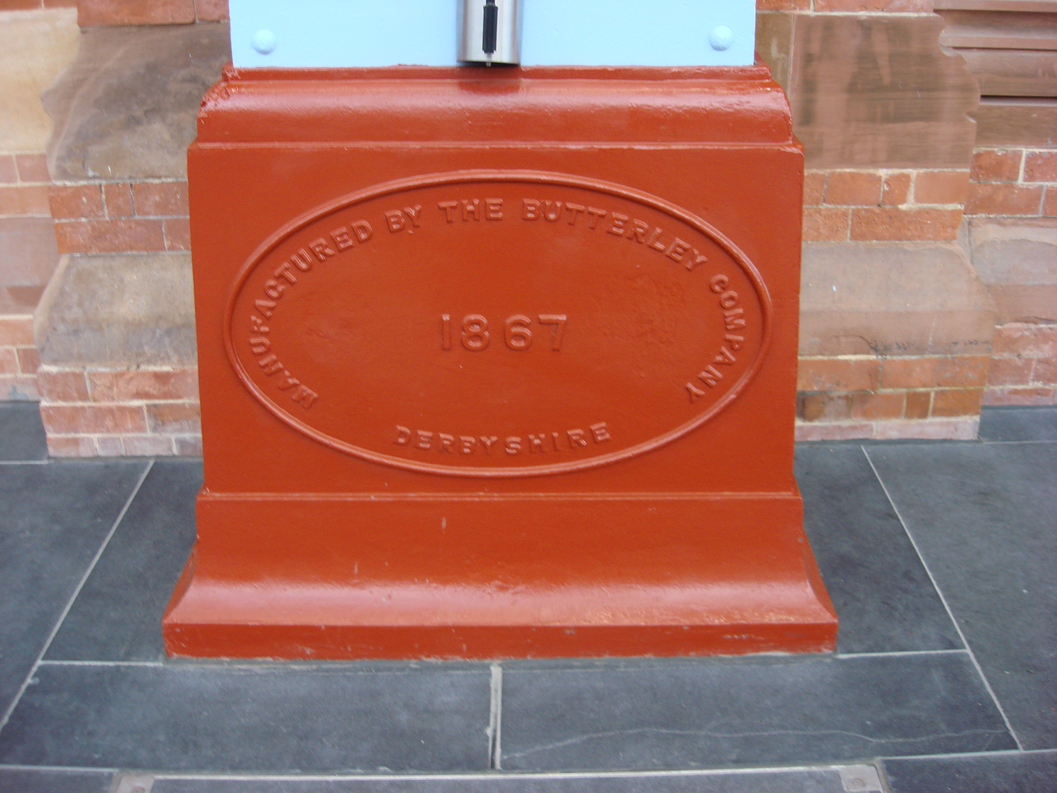 Trainshed Manufacturers plate in St Pancras railway station, London, UK